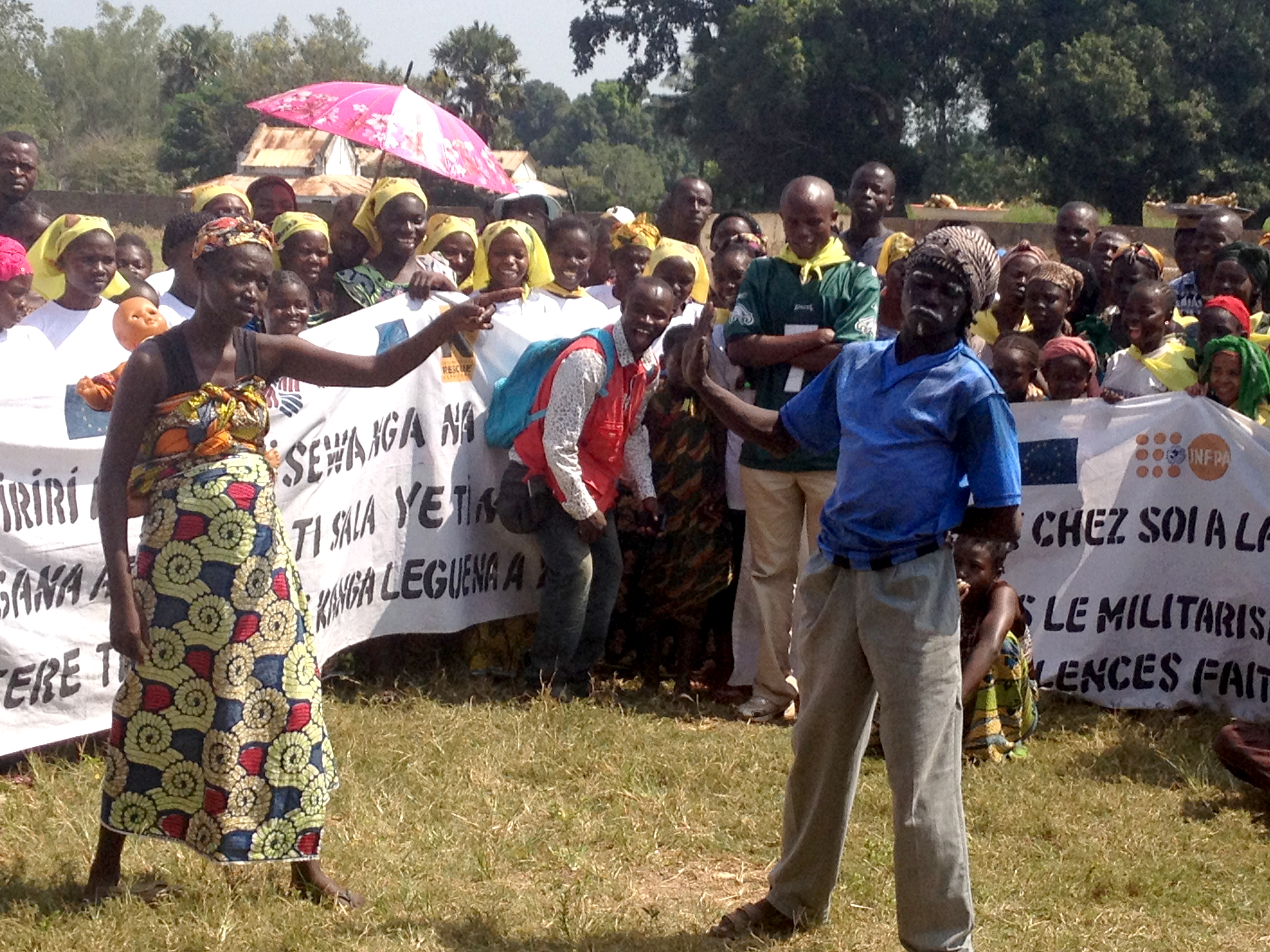 In the climate of violence across the country, domestic abuse is an additional threat for women and children in particular. This local drama group in Kaga Bandoro - supported by The IRC - is helping to highlight the dangers as well as how to approach and deal with conflict within the home. The UK will fund protection services for the vulnerable in Central African Republic as the crisis worsens - particularly women and children. Britain is also providing emergency healthcare, clean water, food and logistical support to hundreds of thousands of people across CAR in response to the severe escalation in the humanitarian crisis. For full details of how the UK is helping, please Picture: Juliette Humble/DFID